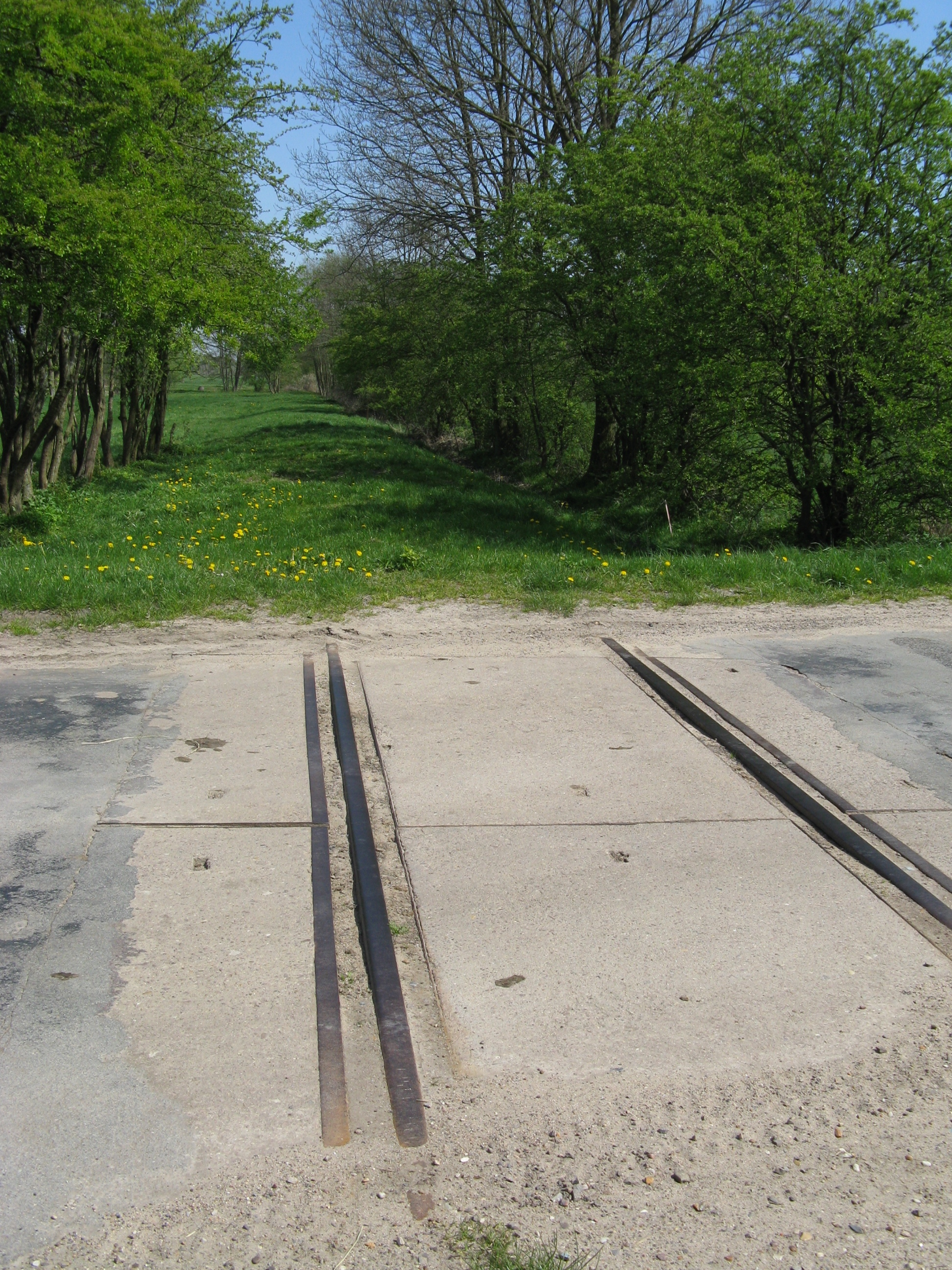 Rest of rail track of the Westprignitzer Kreisringbahn at a level crossing between Klüß (district Parchim, MV) and Karwe, disctrict Prignitz, Brandenburg, Germany